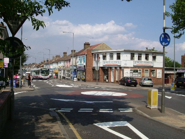 Junction on the A1013. This is the point where the A1013 changes from Palmers Ave to Southend Road. To the left is College Ave and to the right is Chadwell Rd